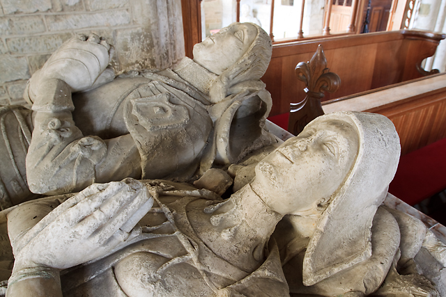 St John the Baptist church, Kinlet - tomb-chest of Sir John Blount & wife (detail)